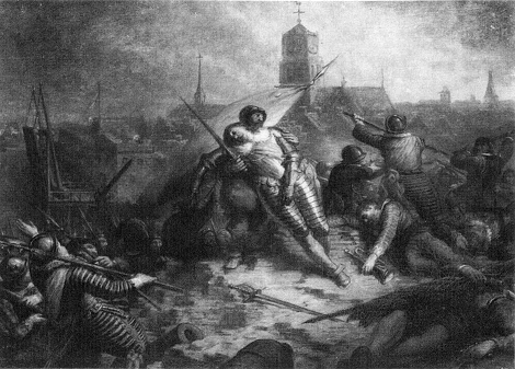 Willem van Nassau LaLecq is killed on august 18 1627, during the siege of Grol (Groenlo). Work by Jacob van Dijck (1814-1896)